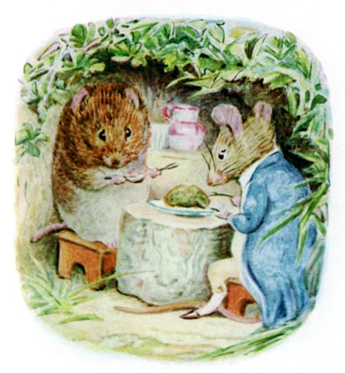 Illustration of Johnny Town-Mouse and Timmy Willie from The Tale of Johnny Town-Mouse